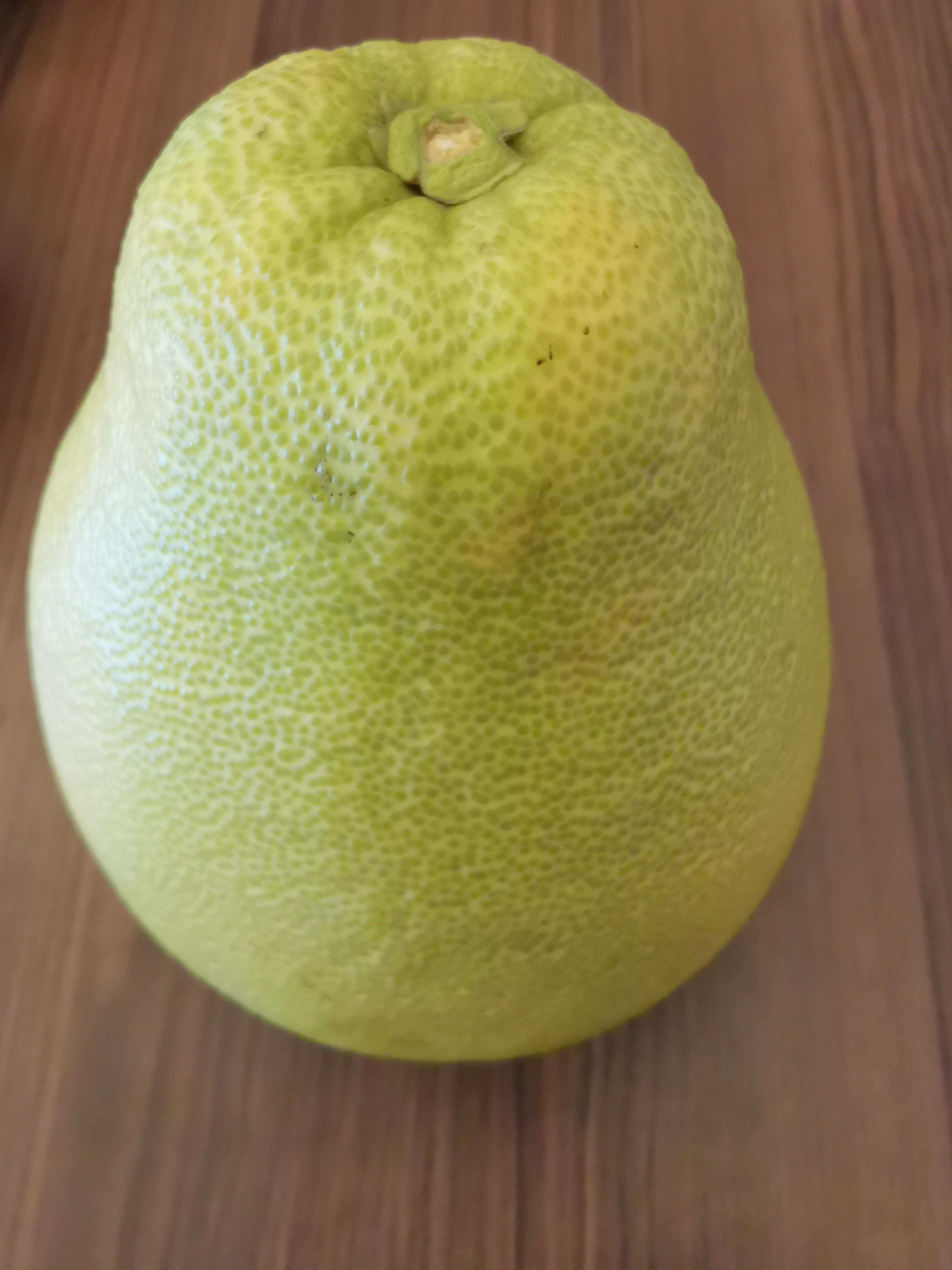 Madou Wendan is a grapefruit variety in the Madou District of Tainan City, Taiwan.